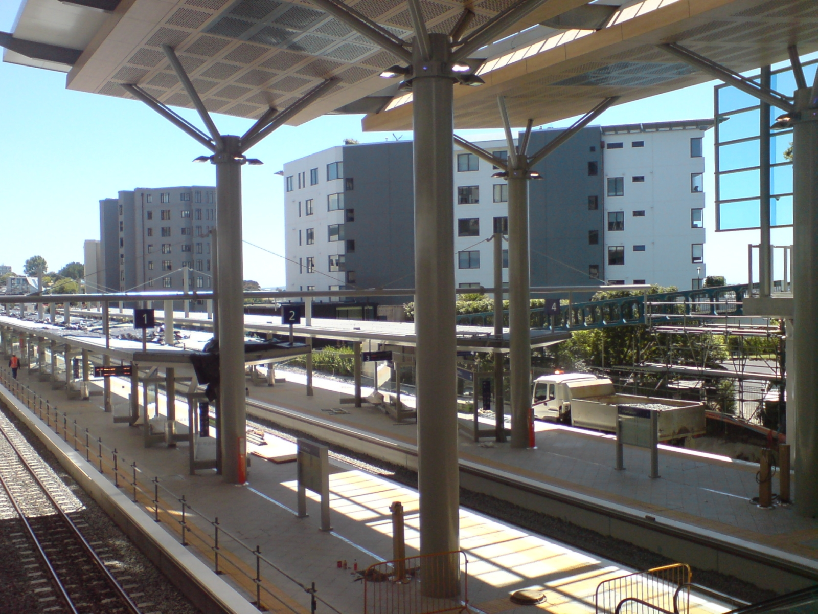 Newmarket Train Station in Auckland City, New Zealand. Looking northwards from Station Square onto the platforms.